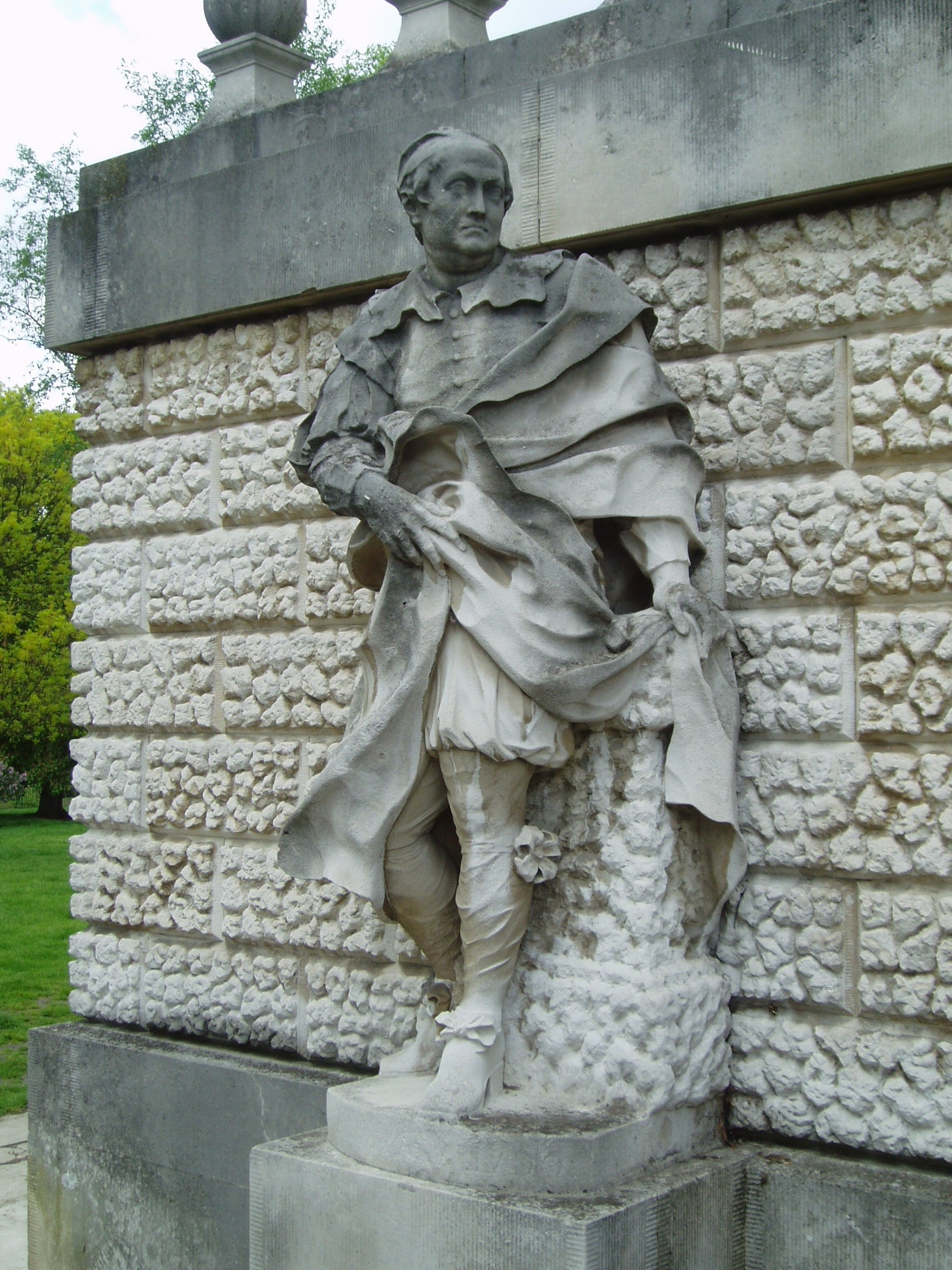 Full length statue of Andrea Palladio, arguably the most influential architect in the history of the Western world, Flanking the doorway to Chiswick House